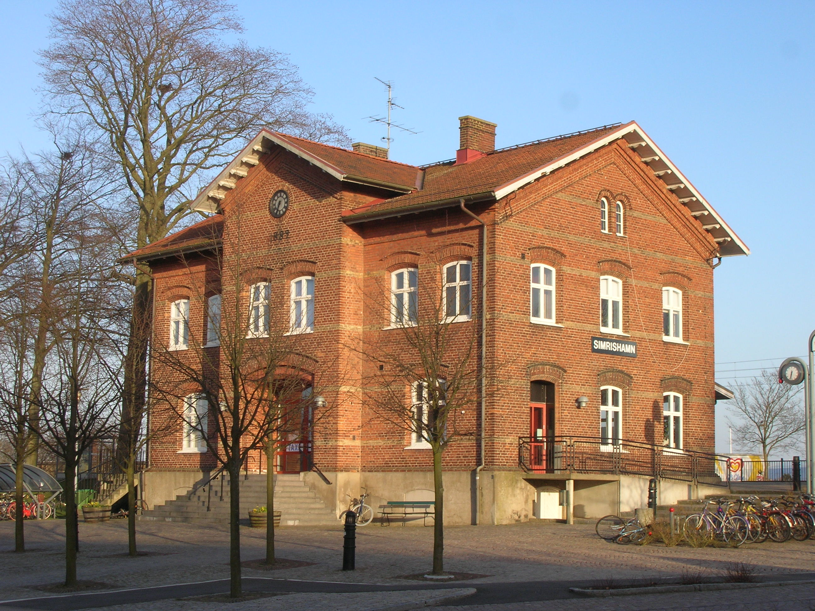 The train station in Simrishamn, Scania, Sweden